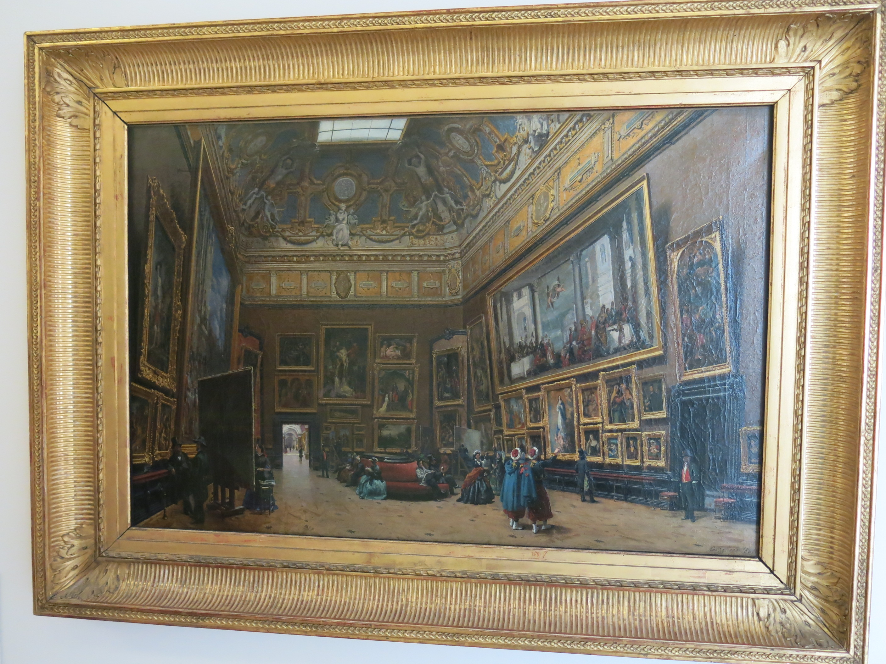 View of the grand Salon carré in Louvre museum (Paris, France). Salon of 1861. Giuseppe Castiglione (1829–1908).